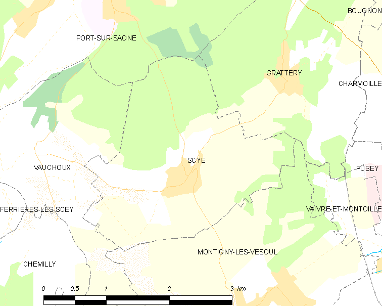 Map of French municipality